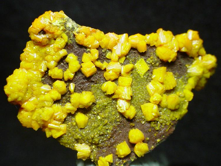 Francevillite, Mounanaite, Curienite Locality: Mounana Mine (Mouana Mine), Franceville, Haut-Ogooué Province, Gabon (Locality at ) A rich miniature-sized specimen of incredible aesthetic and scientific quality. This piece features INDIVIDUAL and ISOLATED , RELATIVELY LARGE crystals of Francevillite to several mm in size, on an attractive matrix plate - and the back side is as good as the front side! Tiny yellow-gemmy crystals of mounanaite are so abundant and rich on this specimen that they are easily eye-visible against the larger francevillites, as shown in my pics. Characteristically powdery microcrystals of orangey-yellow curienite are in association , as well. This mine closed in 1999 after 40 years of production, and this is, for quality if not size, pretty much as good as the mineral gets. It is a trim from the large specimen I obtained, below. Note that this its the type locality of ALL THREE species! 4 x 3.5 x 1 cm